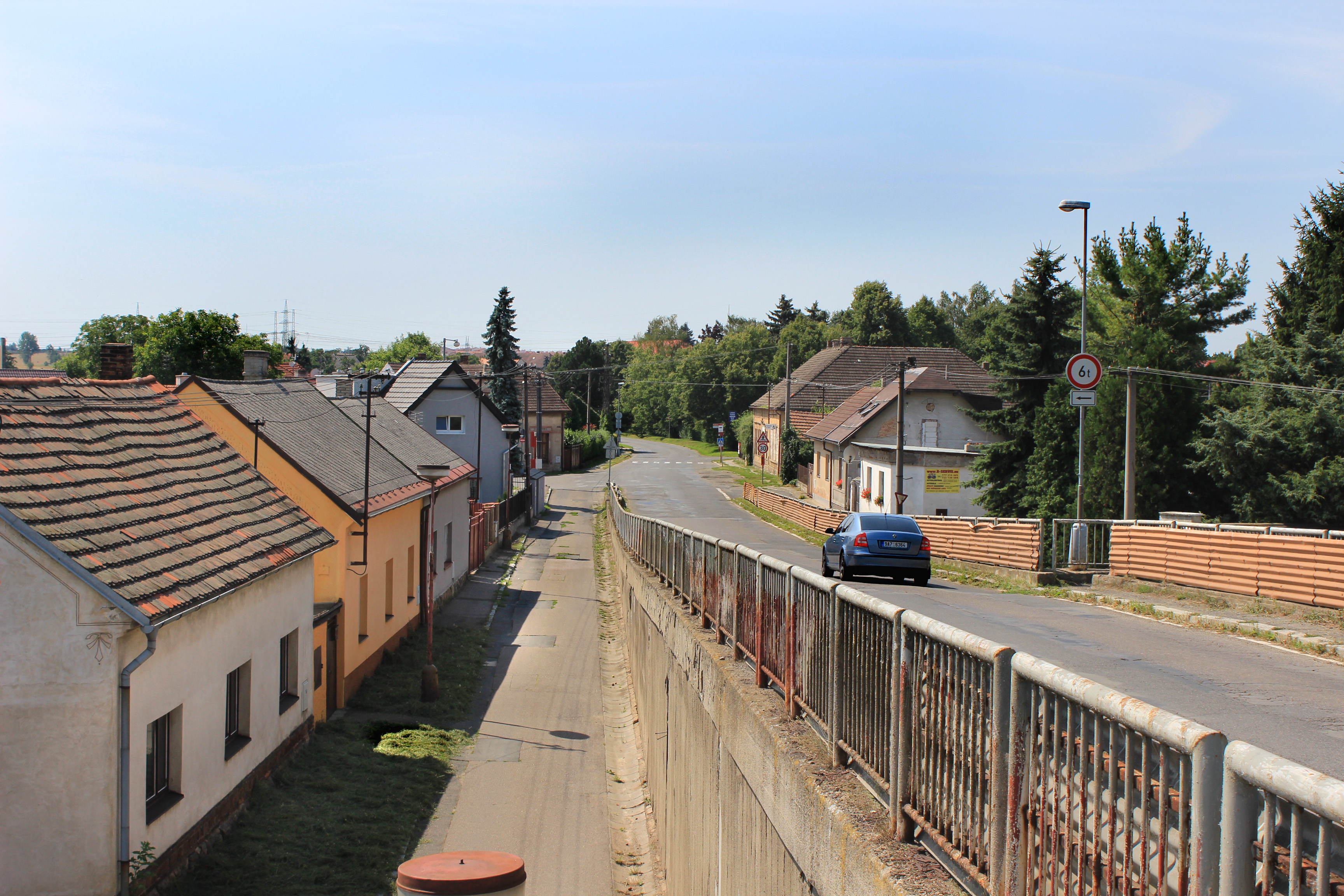 Zálužská street in Záluží, part of Čelákovice, Czech Republic